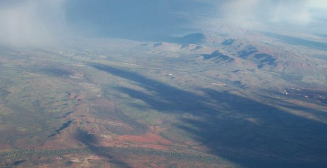 Paraburdoo town site and hills taken from a plane during a rain storm